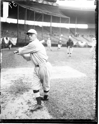 Depicted person: Specs Toporcer – American baseball player